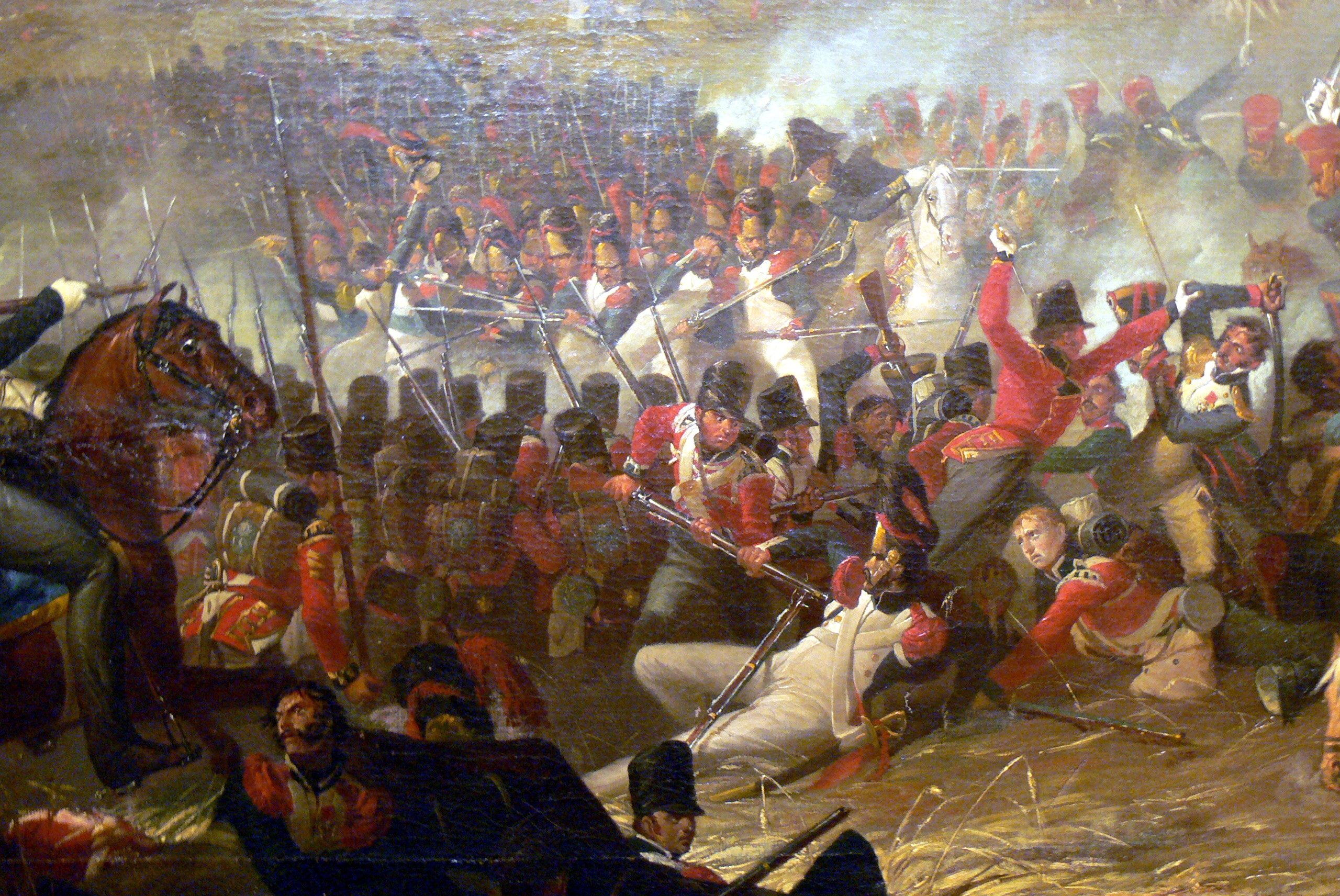 Plas Newydd (Anglesey). "Waterloo" - Painting by Denis Dighton: British 1st Foot Guards.